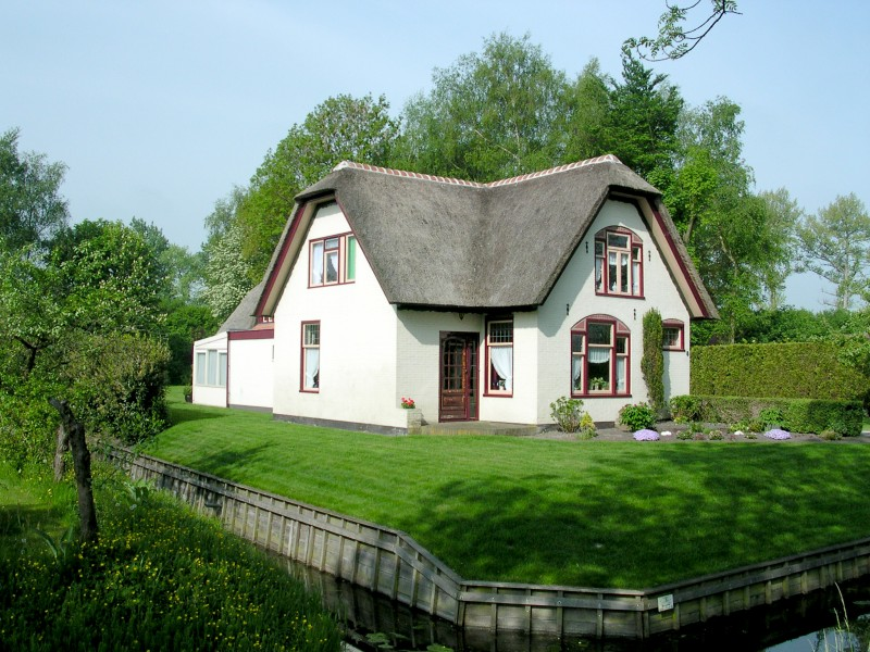 Een plattelandshuis/bungalow in Wognum A country house in the town Wognum